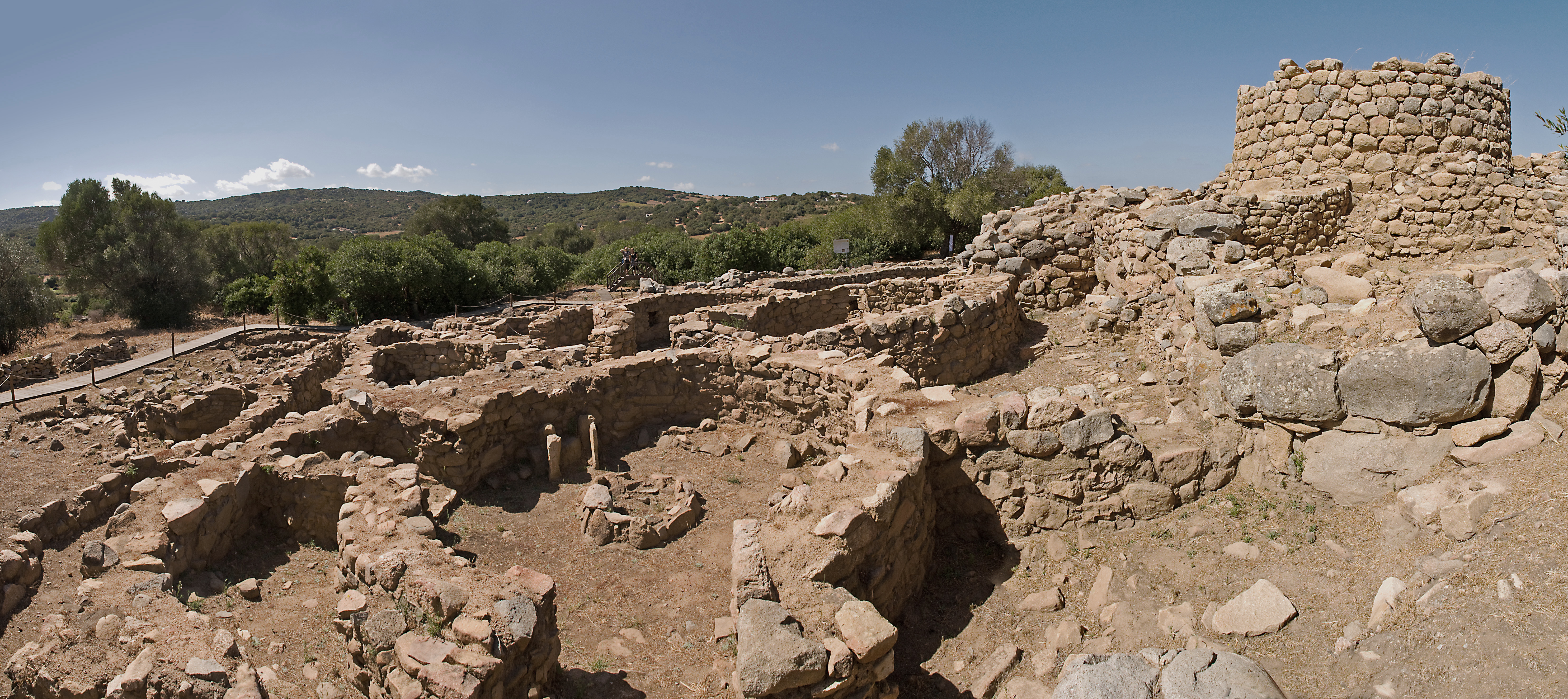 La Prisgiona archaeological site near Arzachena, Sardinia, Italy